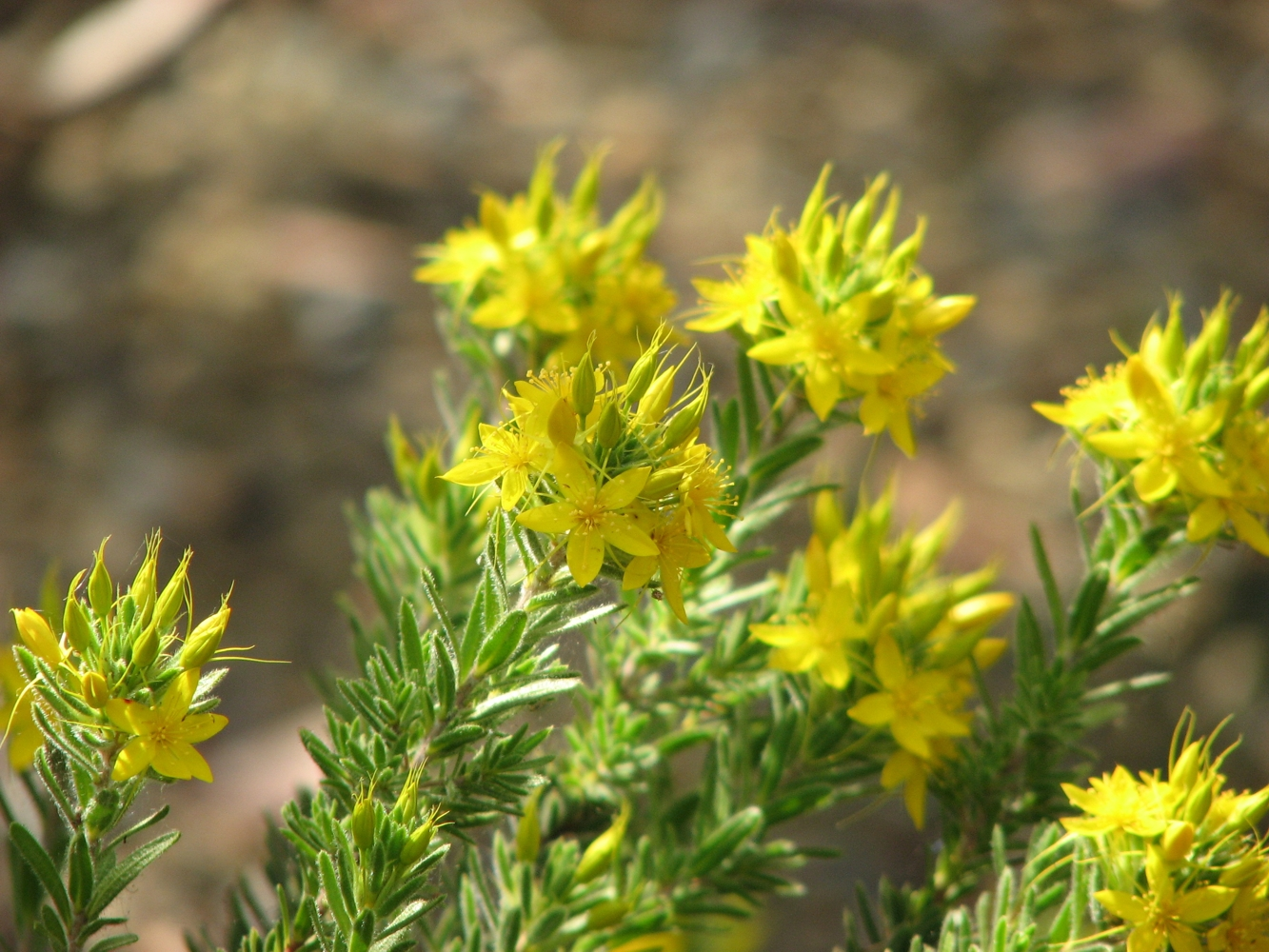 Calytrix aurea (cultivated, labelled), Maranoa Gardens, Balwyn, Victoria, Australia